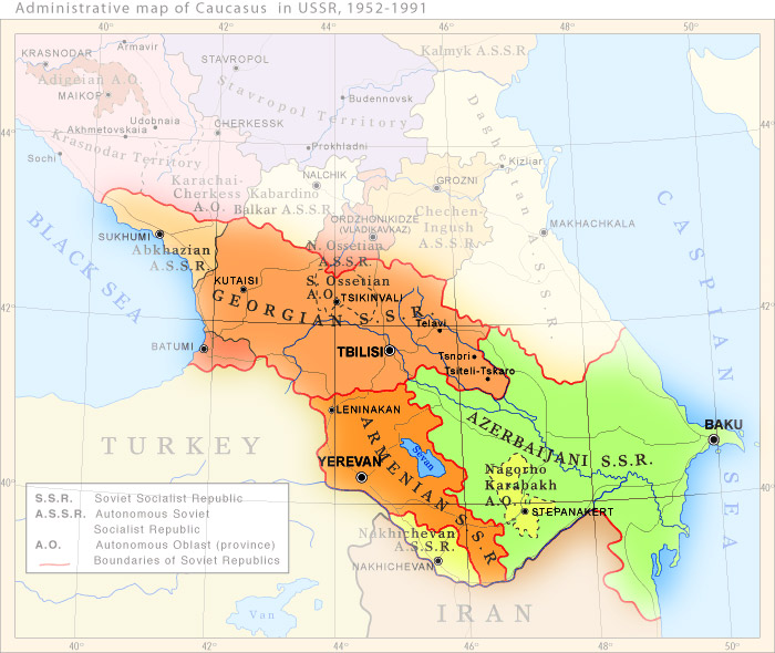 South Caucasus area